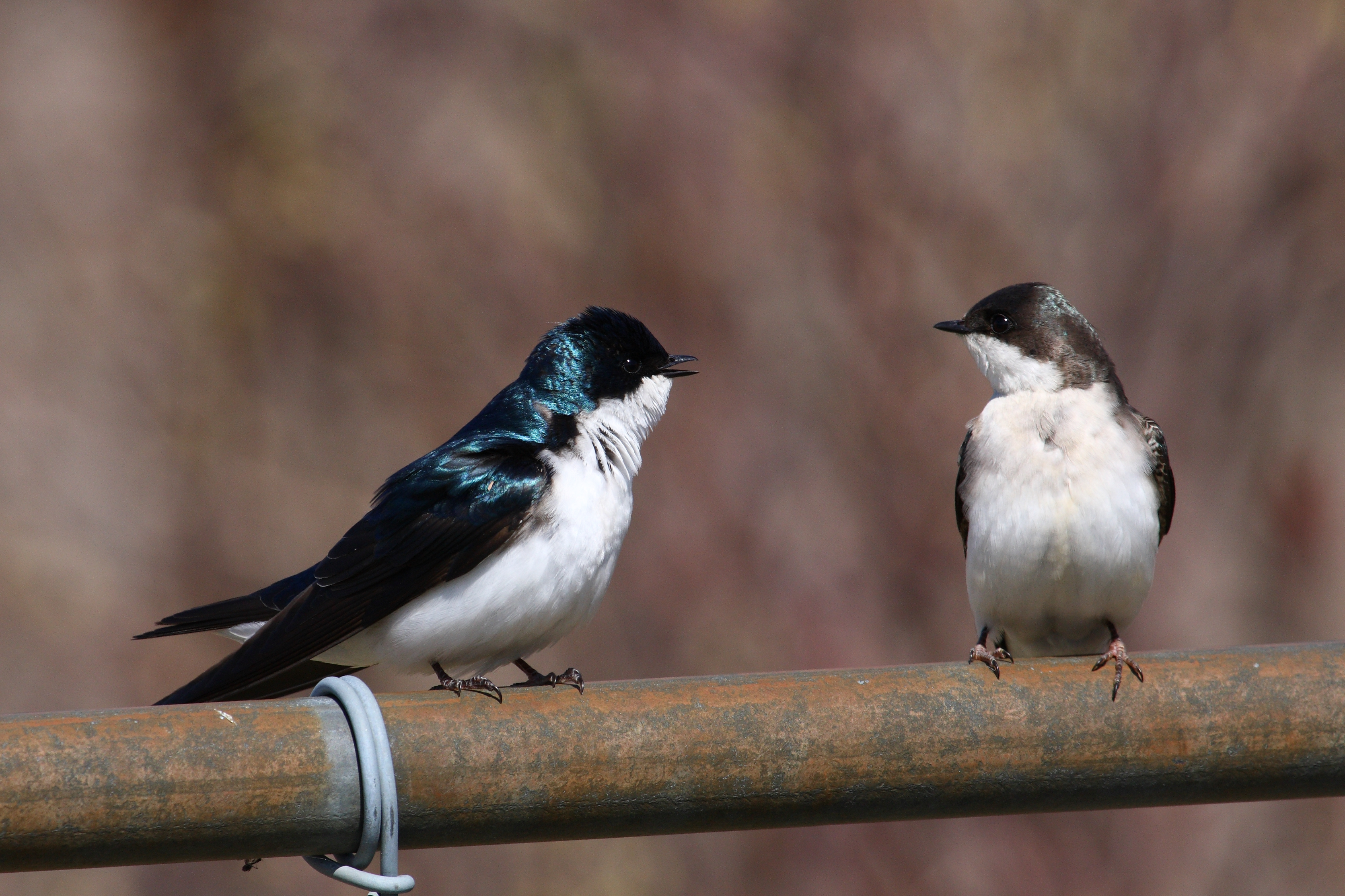 Tree Swallow (Tachycineta bicolor), mâle en left, female (first summer) on right, Cap Tourmente National Wildlife Area, Quebec, Canada